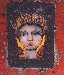 Medaillon III century